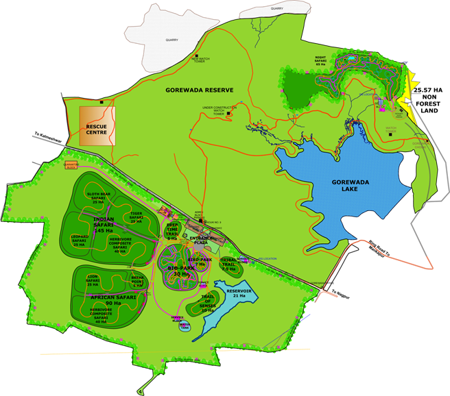 Sanctioned Plan of Gorewada Zoo Safari by the Central Zoo Authorities